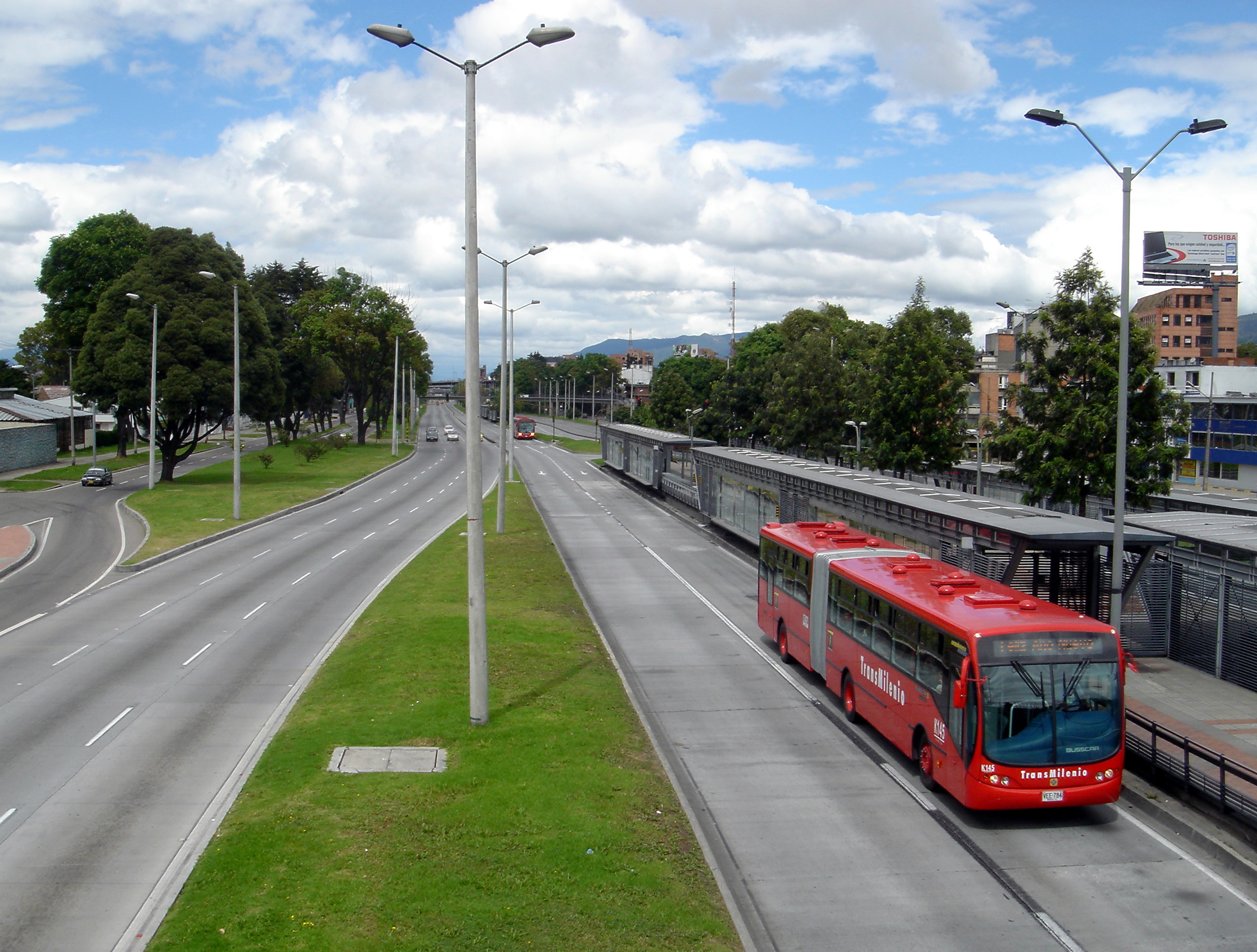 TransMilenio BRT